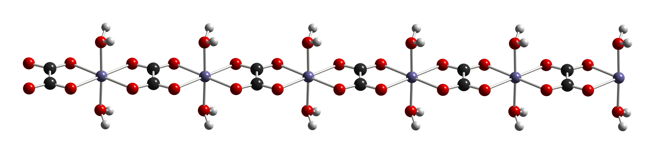 Ball-and-stick model of part of the crystal structure of iron(II) oxalate dihydrate, Fe[C2O4]·2H2O. Colour code: Iron, Fe: grey-blue Carbon, C: grey-black Oxygen, O: red Hydrogen, H: white Crystal structure from Phys. Chem. Minerals (2008) C35, 467–475. Image generated in CrystalMaker 8.2.